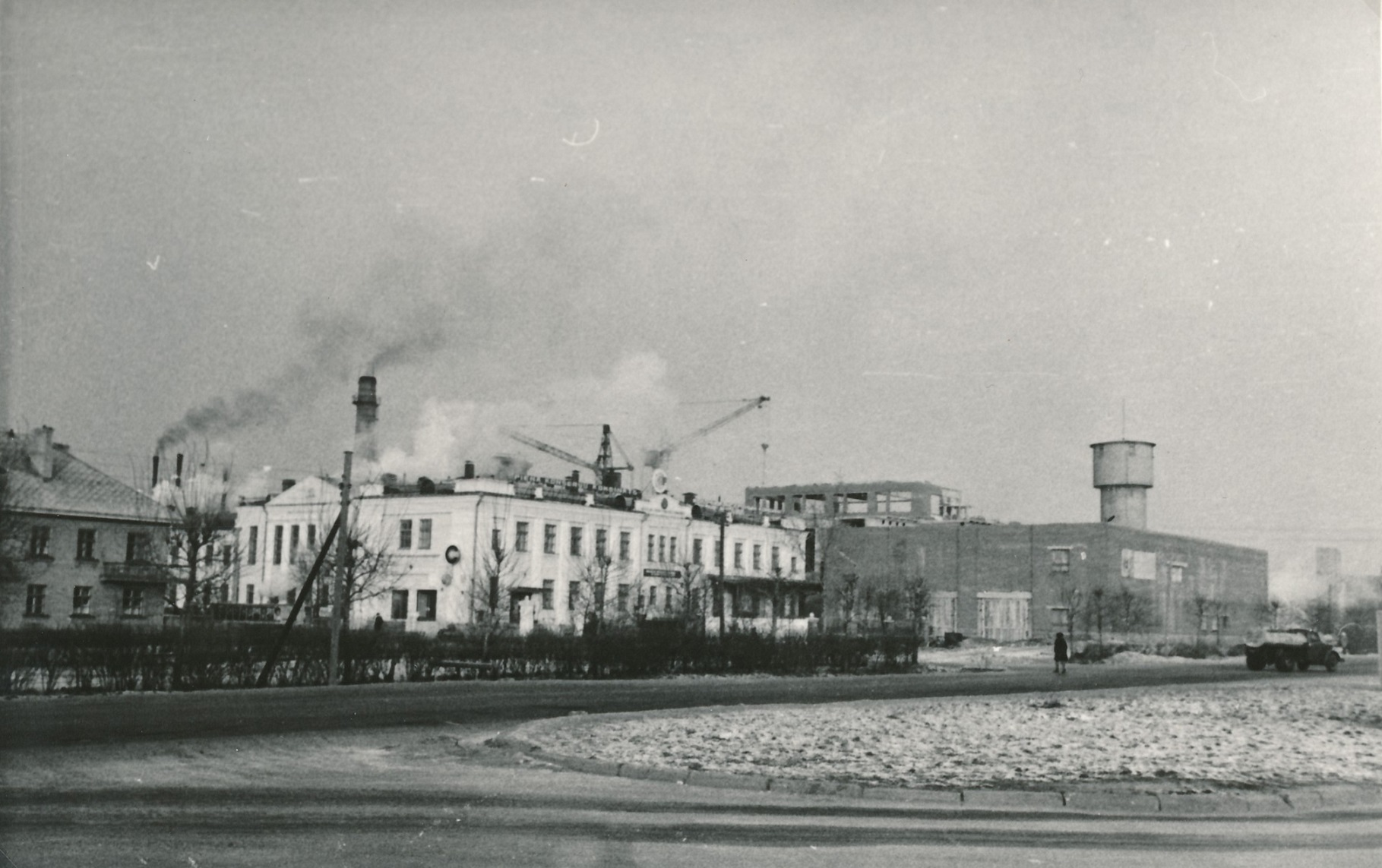 RPKK renovācijas laikā